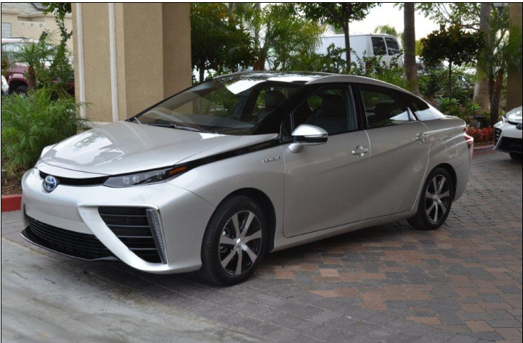 Toyota Mirai. Fuelcell vehicle.